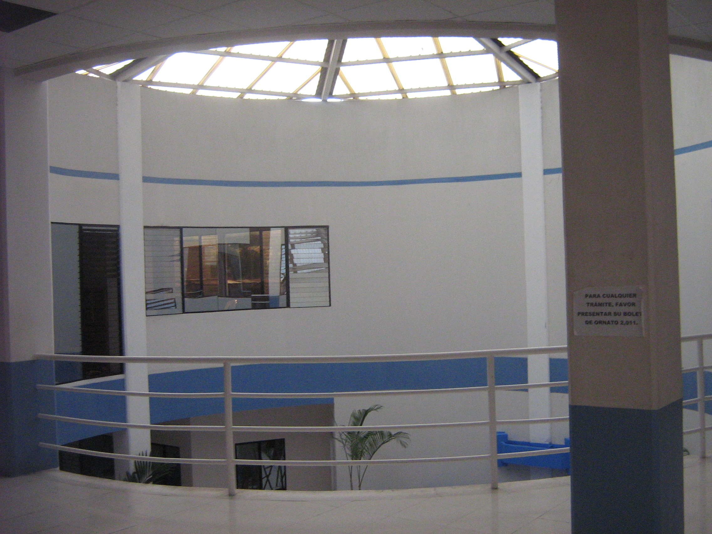 This is the municipality of El Progreso on the inside. Is the second level and you can see the roof and railings.